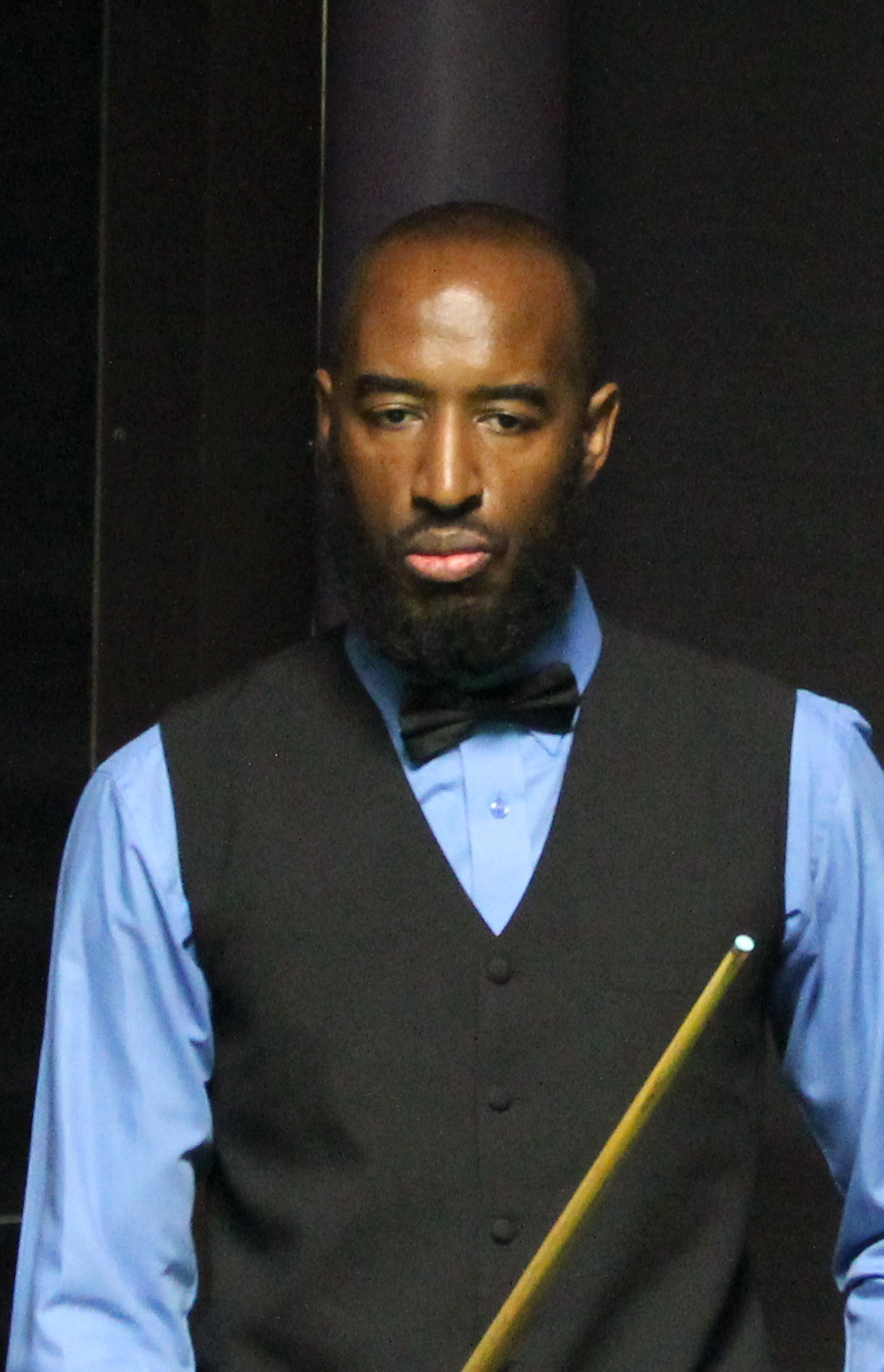 Rory McLeod beim Paul Hunter Classic 2016